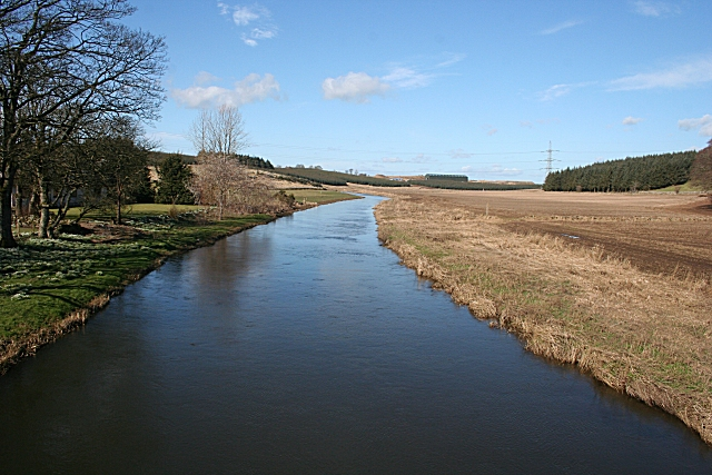 River Ythan Looking upstream from the bridge near Ardlethen.